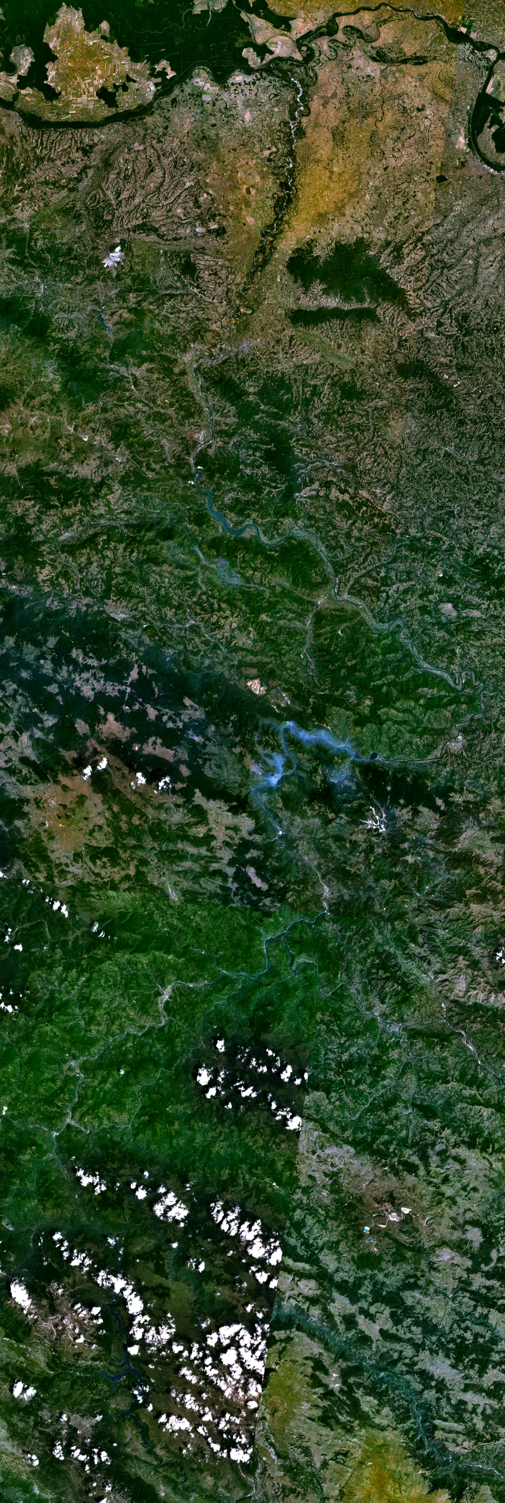 Satellite view of the Drina bassin